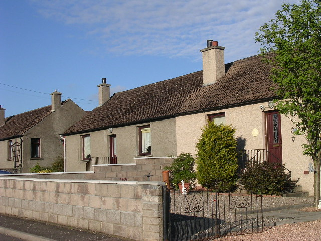 Cottages at Inveraldie. The little hamlet of Inveraldie sits right on the busy A90 dual carriageway. Interestingly, there is no sign of the settlement on the 1940 map!